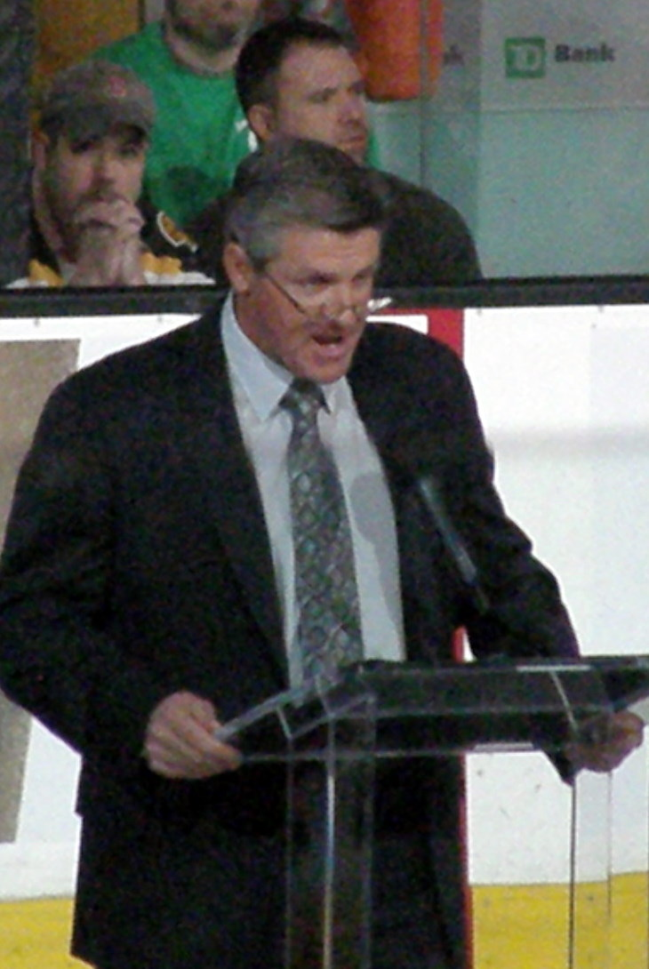 NESN's Andy Brickley, introducing the 1970 Bruins. Pittsburgh Penguins at (vs) Boston Bruins, TD Banknorth Garden (Boston Garden), March 18, 2010